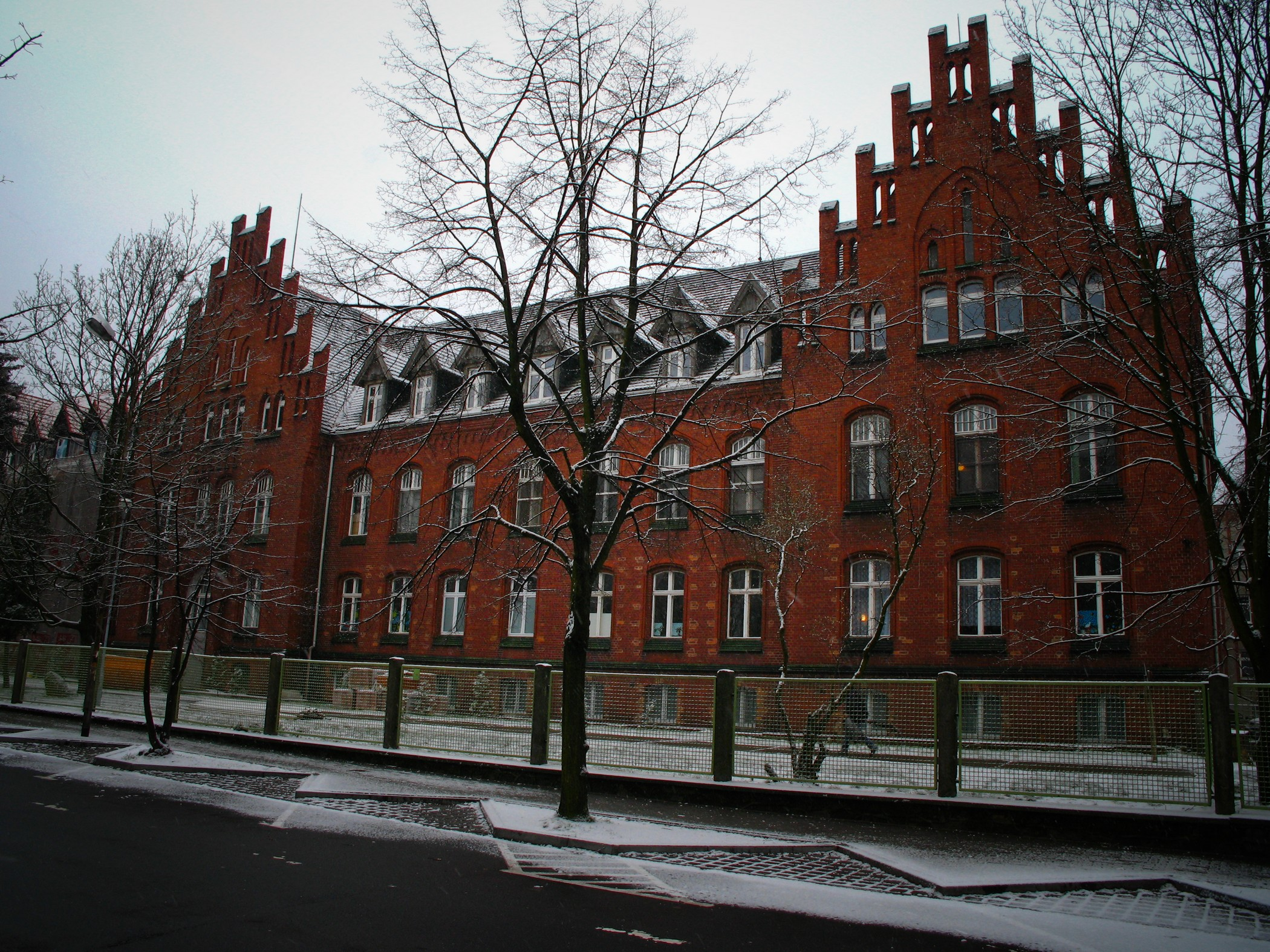 hospital on Wazow street